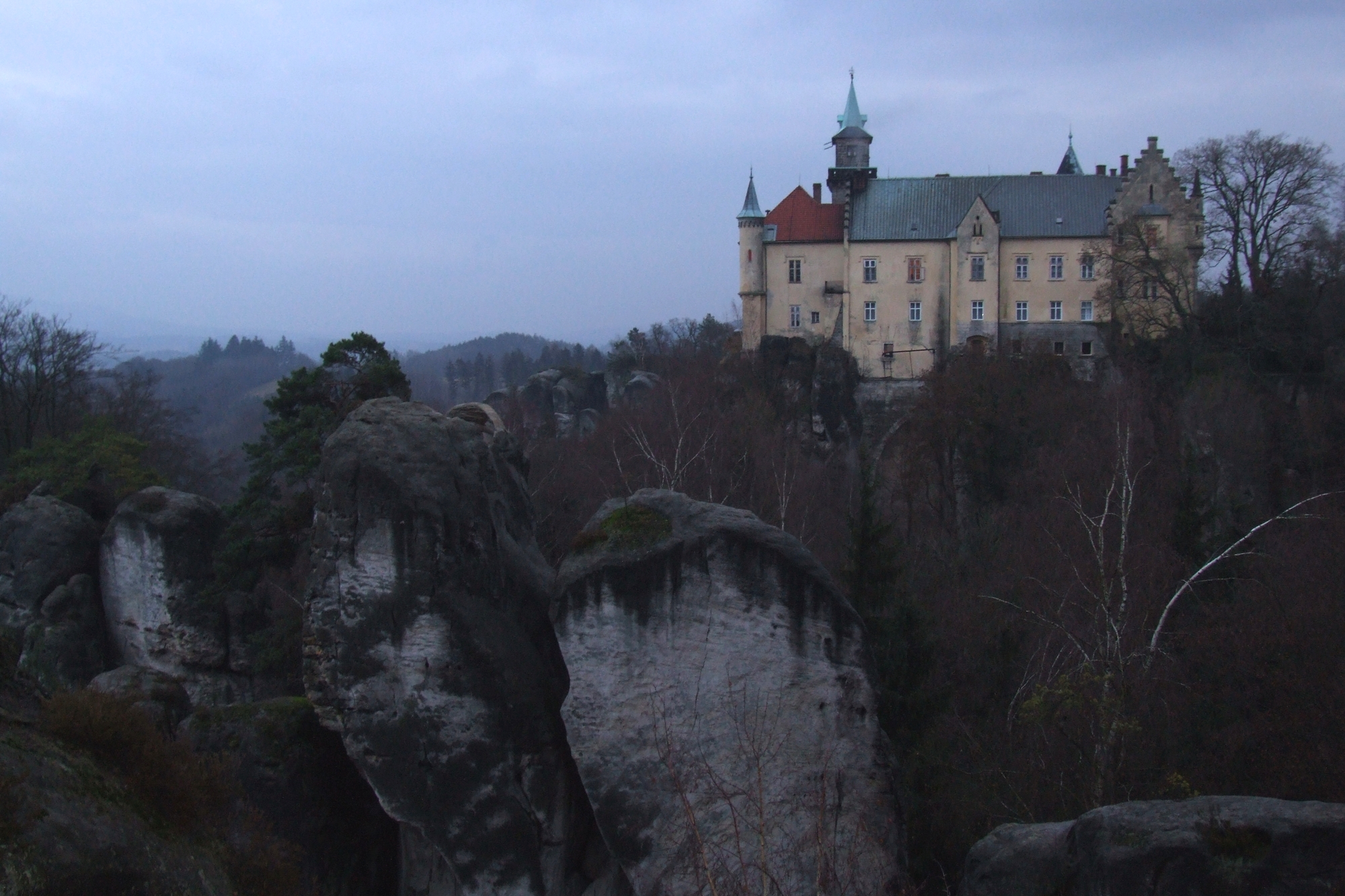 Rock town Hruboskalsko in the evening - view from Zámecká vyhlídka